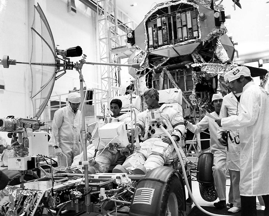 Apollo 17 : Jack Schmitt (left) and Gene Cernan participate in the LRV final fit check.